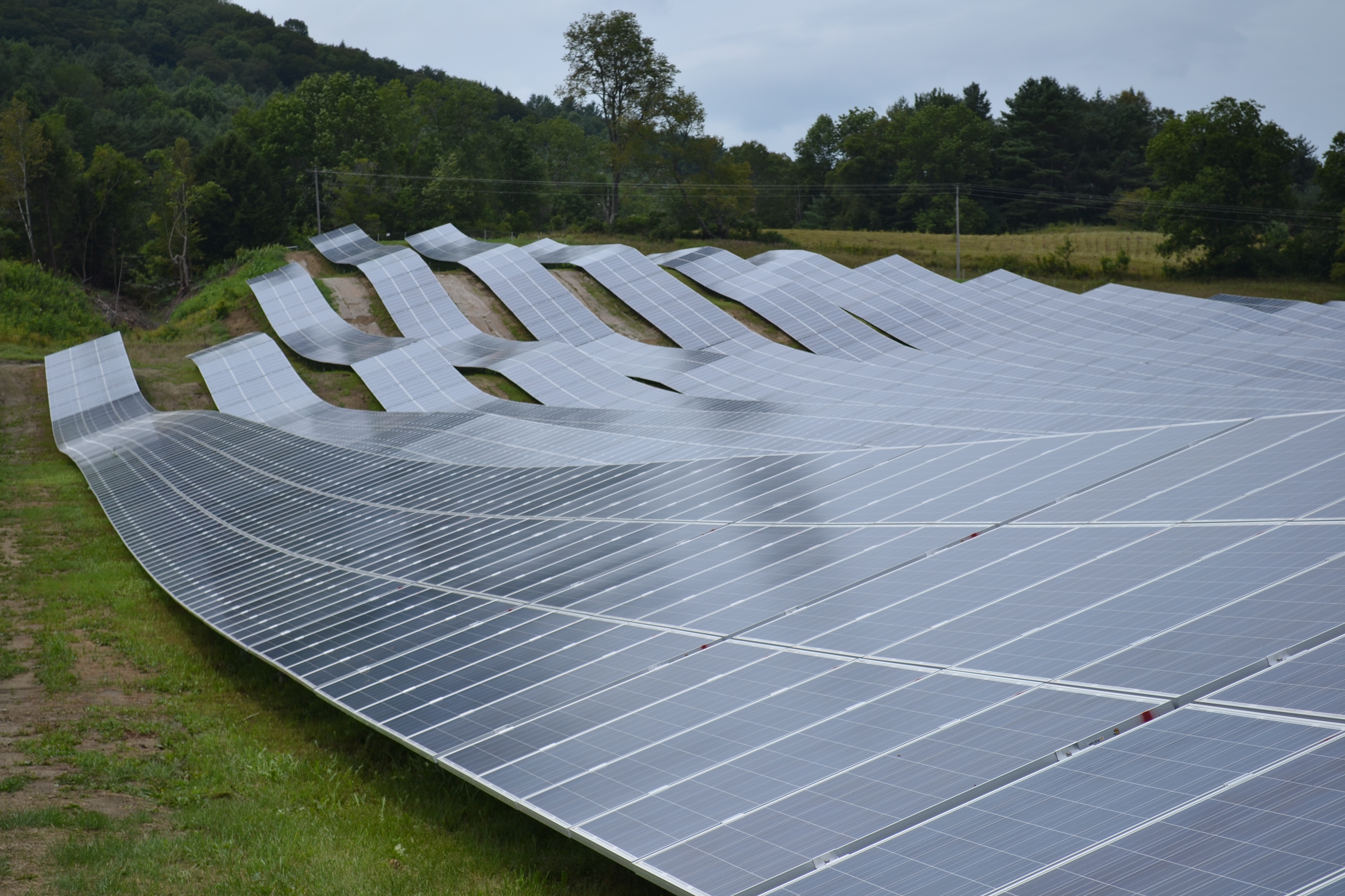 SunGen Sharon Solar Farm in Sharon, Vermont